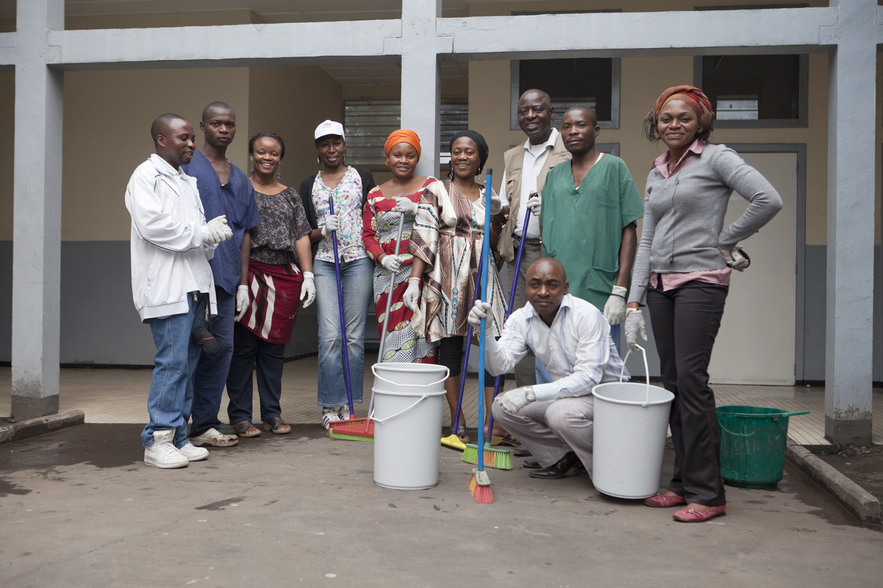 MONUSCO staff clean a section of Goma General Hospital to commemorate Nelson Mandela on the 18th of July 2012. The 18th of July has been recognized as Nelson Mandela day by the United Nations. © MONUSCO/Sylvain Liechti